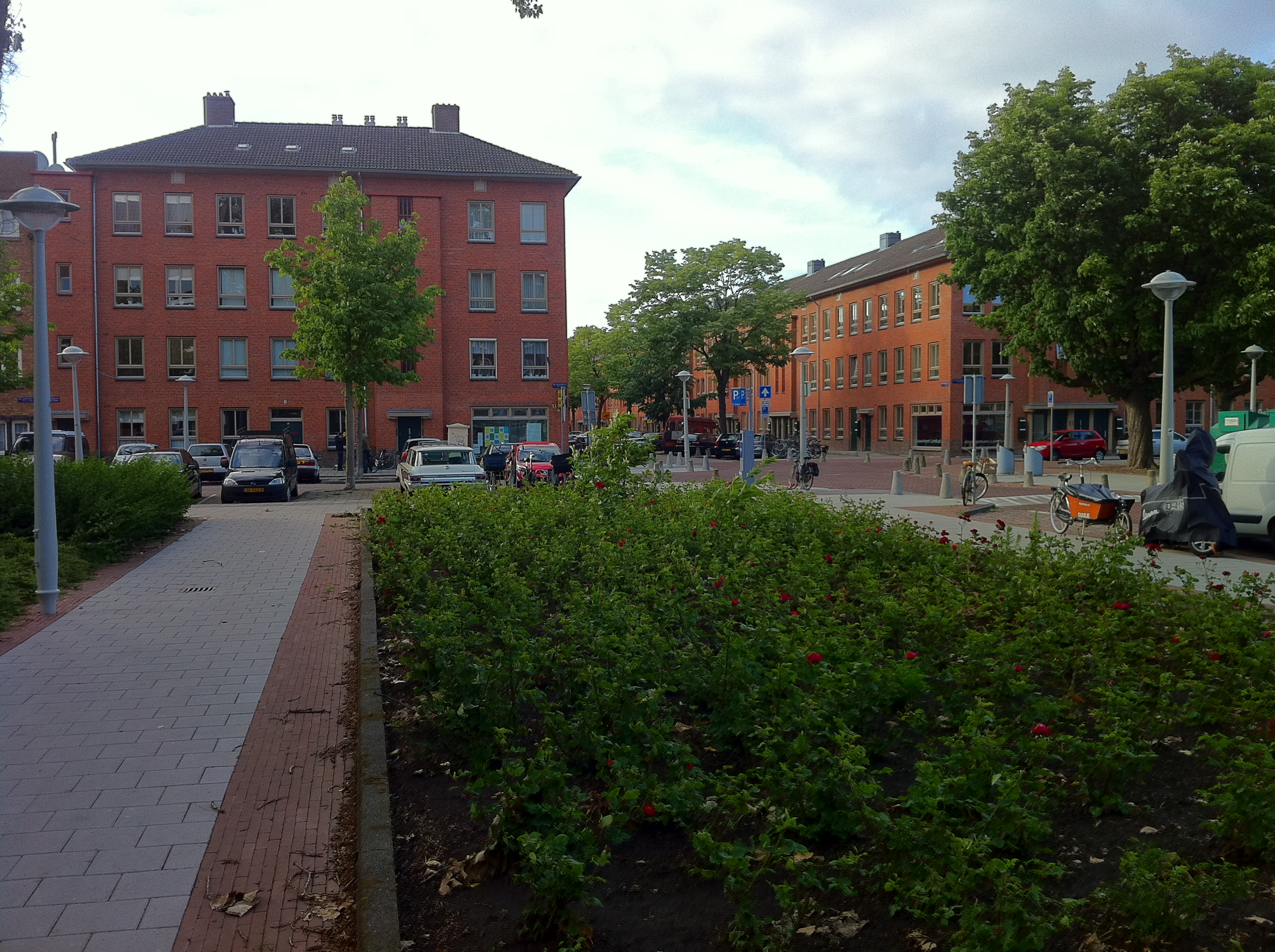 Arbeiderswoningen gebouwd door Zomers Buiten, ontwerp Gulden en A. van der Linde 1933, nu verhuurd door Ymere. Tjerk Hiddes de Vriesstraat, hoek Gerard Callenburgstraat.